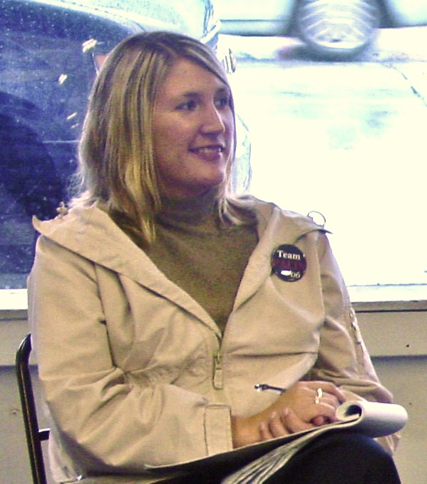 Ivy Frye (implicated in troopergate). This image was taken at a gubernatorial campaign forum with Sarah Palin in Ketchikan, Alaska.